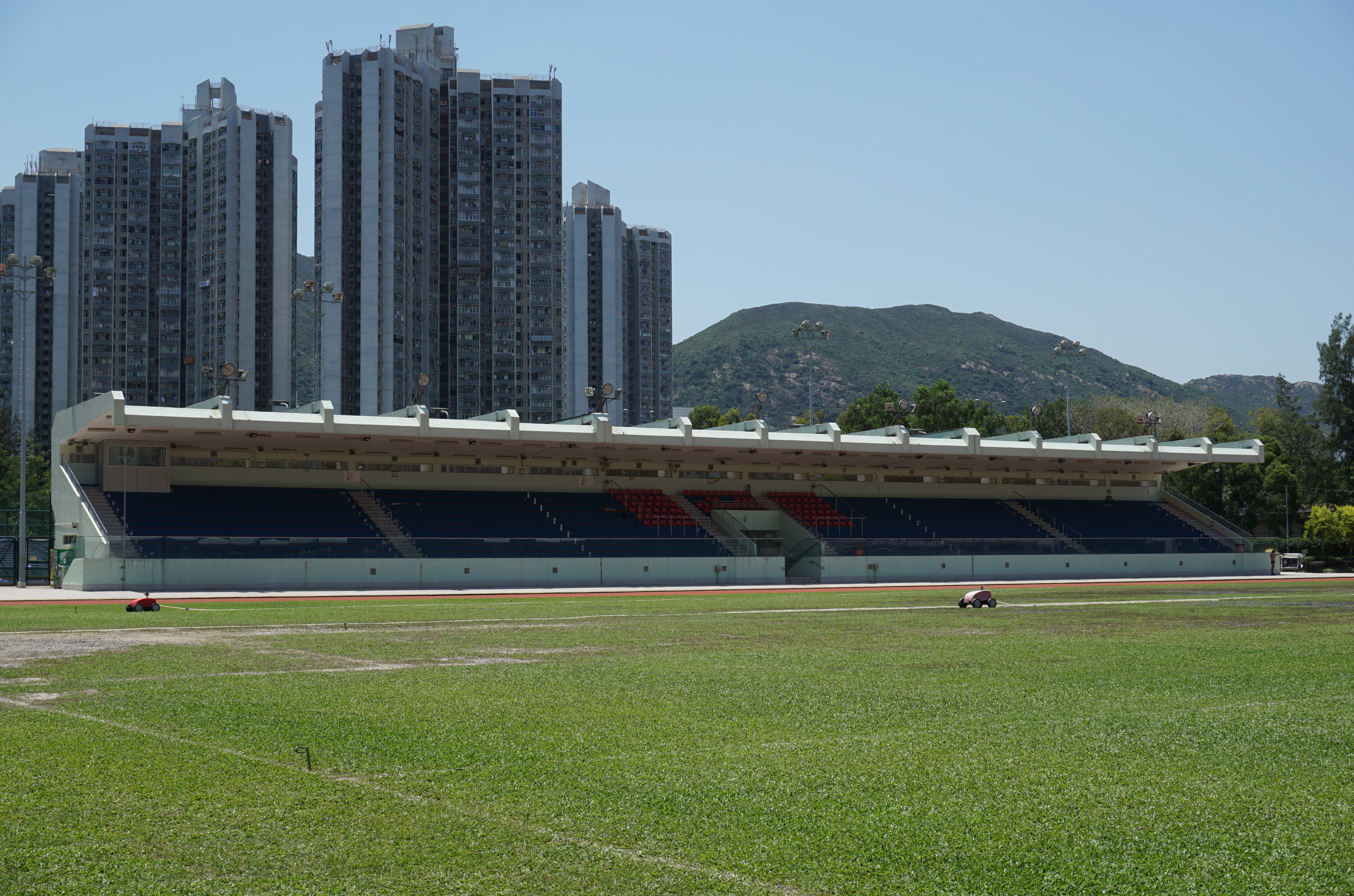 Tang Shiu Kin Sports Ground in Tuen Mun, Hong Kong.